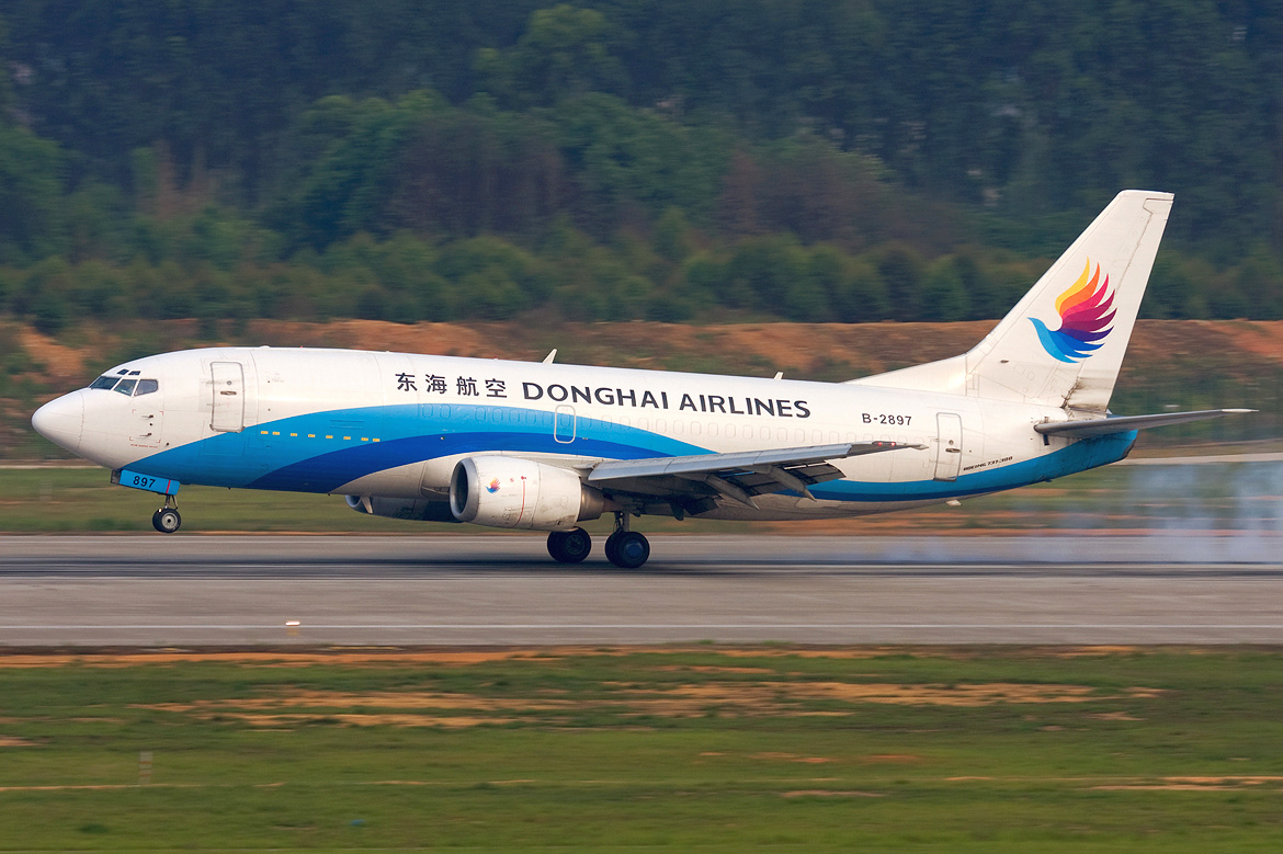 A Donghai Airlines Boeing 737-3Y0(F) at Chengdu Airport (CTU / ZUUU)